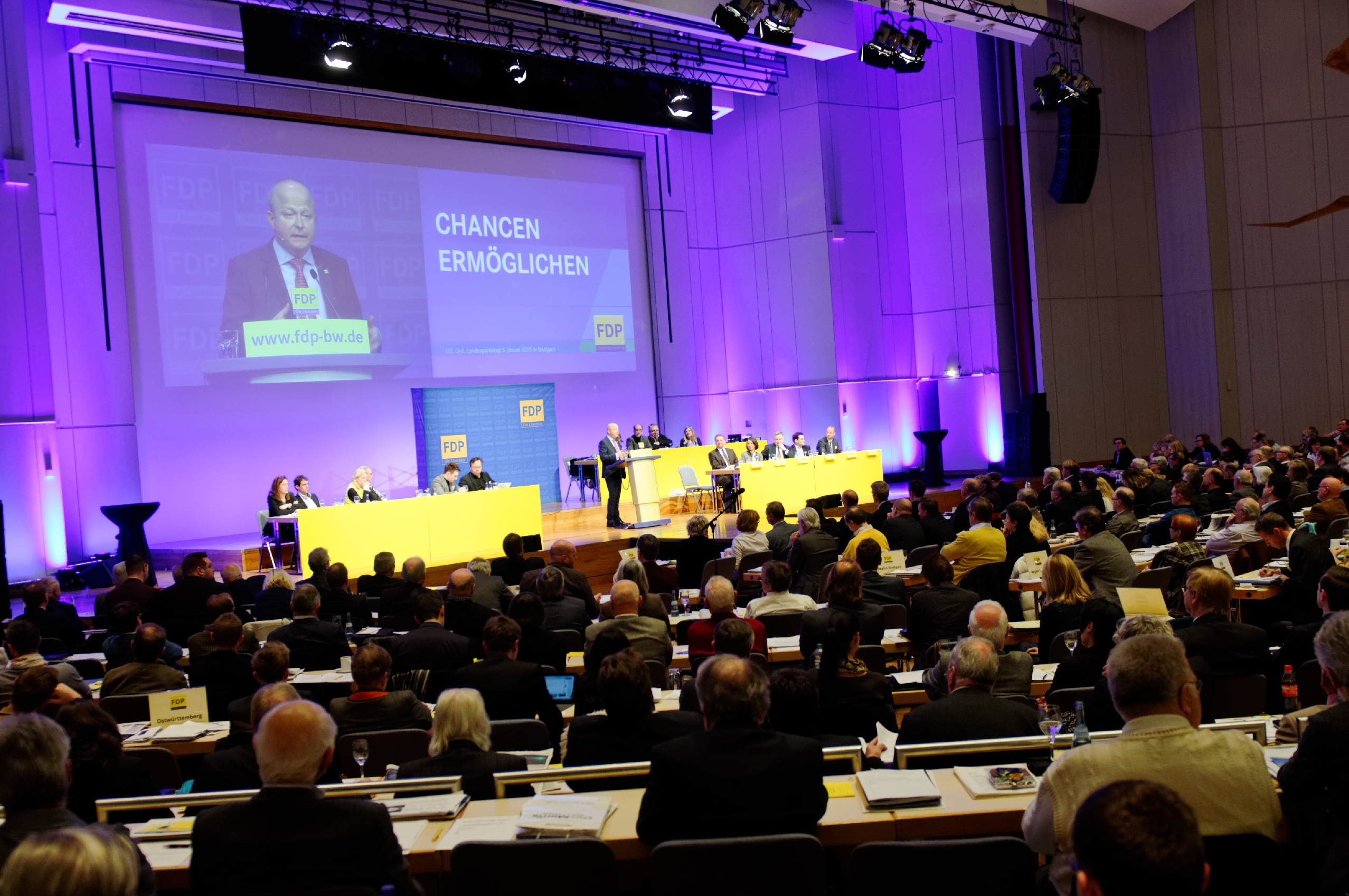 Series: 112th regular party convention of the FDP Baden-Württemberg in Stuttgart on January 5th, 2015